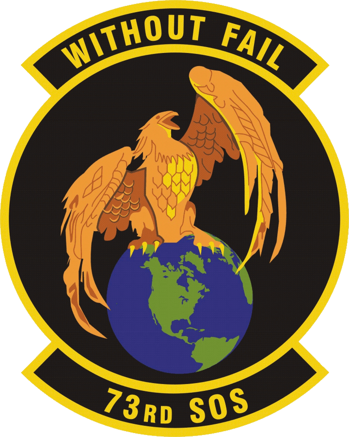 Emblem of the 73rd Special Operations Squadron, a squadron of the United States Air Force